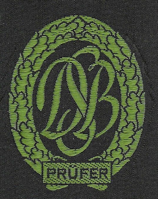 Attester badge for medals in mass sports achievements, issued by the German Sports Assoc.